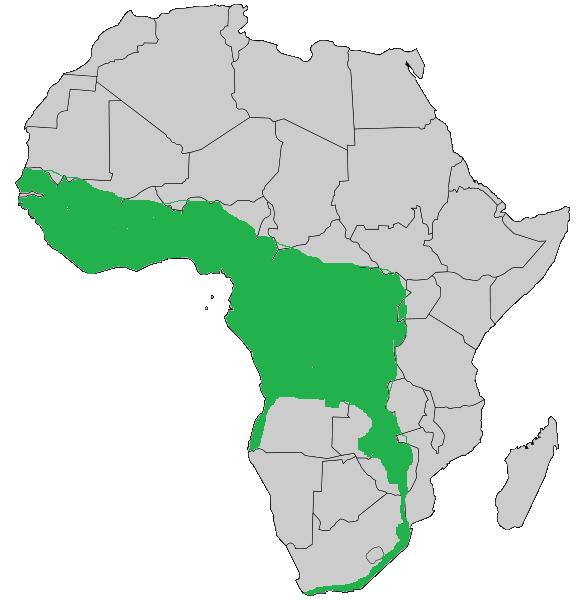 Distribution of the Forest cobra (Naja melanoleuca).